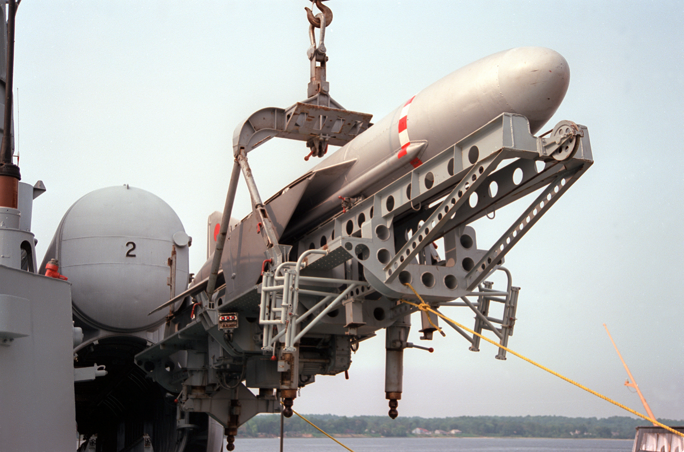 A P-15 SS-N-2c Styx SSM is unloaded from the No. 4 missile tube aboard the USNS HIDDENSEE (185NS9201) while the ship is moored at the Naval Sea Systems Command facility at Solomons Annex. The Soviet-built Tarantul I class missile corvette was acquired from the Federal German navy in November 1991, and is currently undergoing testing and evaluation by the U.S. Navy. Named Rudolf Egelhofer in the East German navy, the ship was renamed HIDDENSEE after the reunification of Germany in 1990.